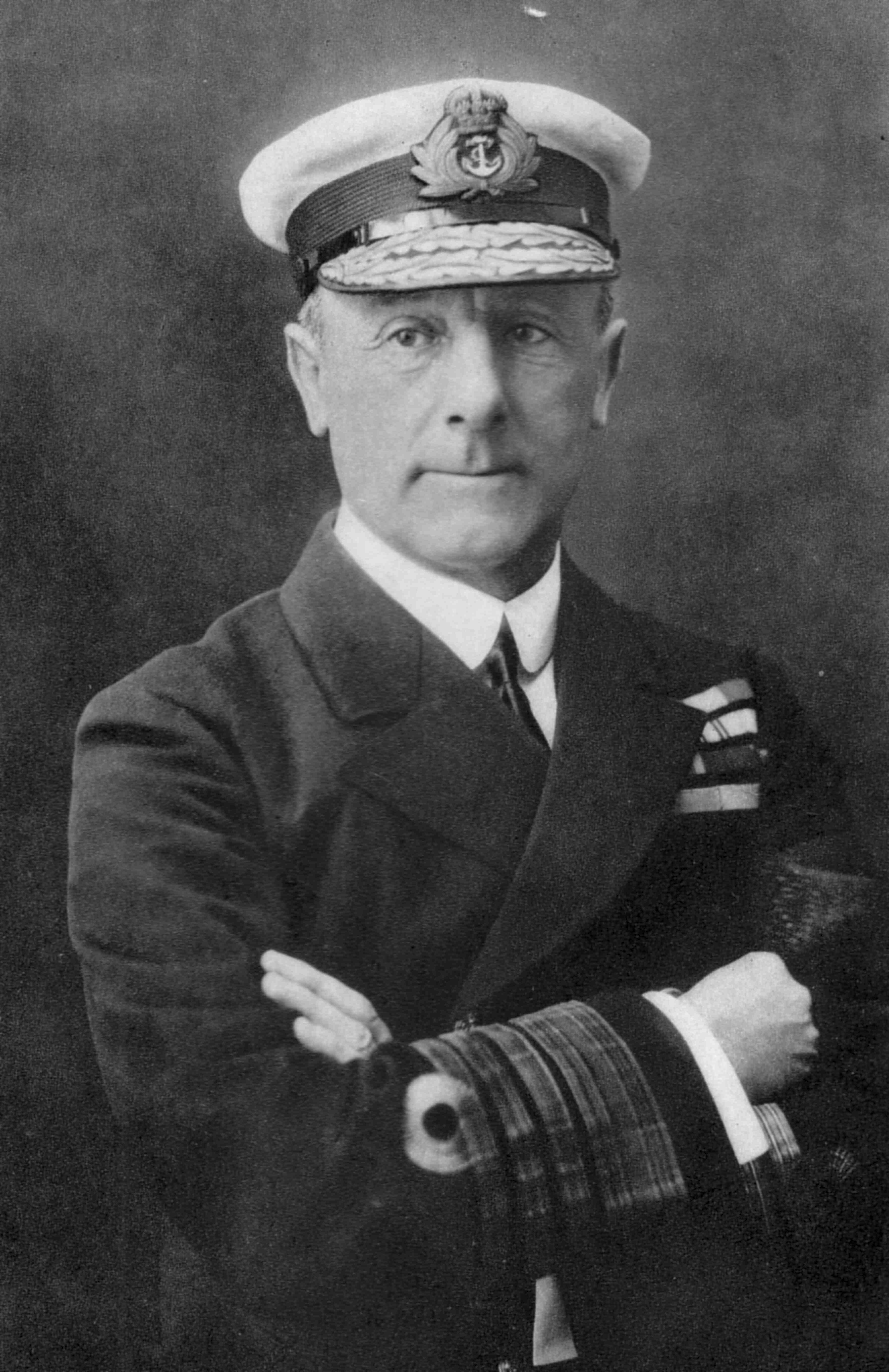 Portrait of Admiral Sir John Jellicoe, GCB, OM, GCVO taken in 1917.(5 December 1859 – 20 November 1935)